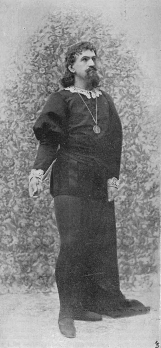 Swedish actor August Lindberg (1846-1916).